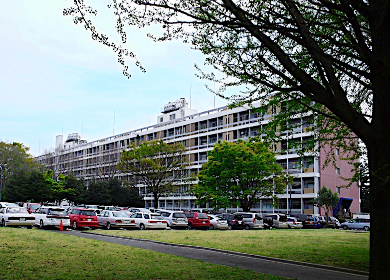 Main Research Building, Riken Headquarters in Wako, Saitama, Japan